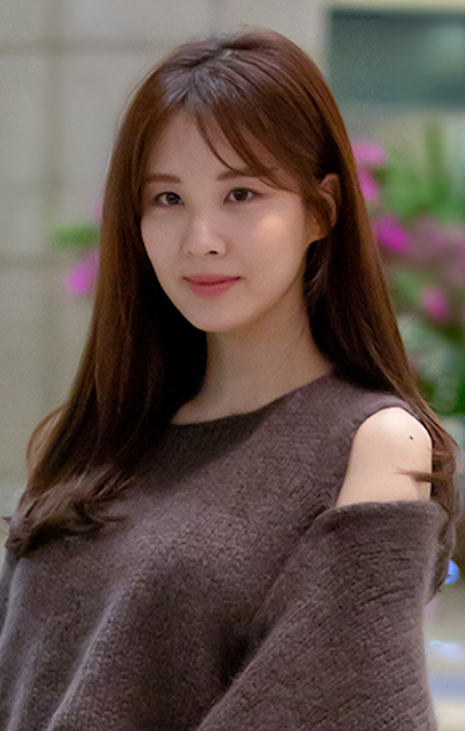 Seohyun at Incheon International Airport in February 10, 2019.